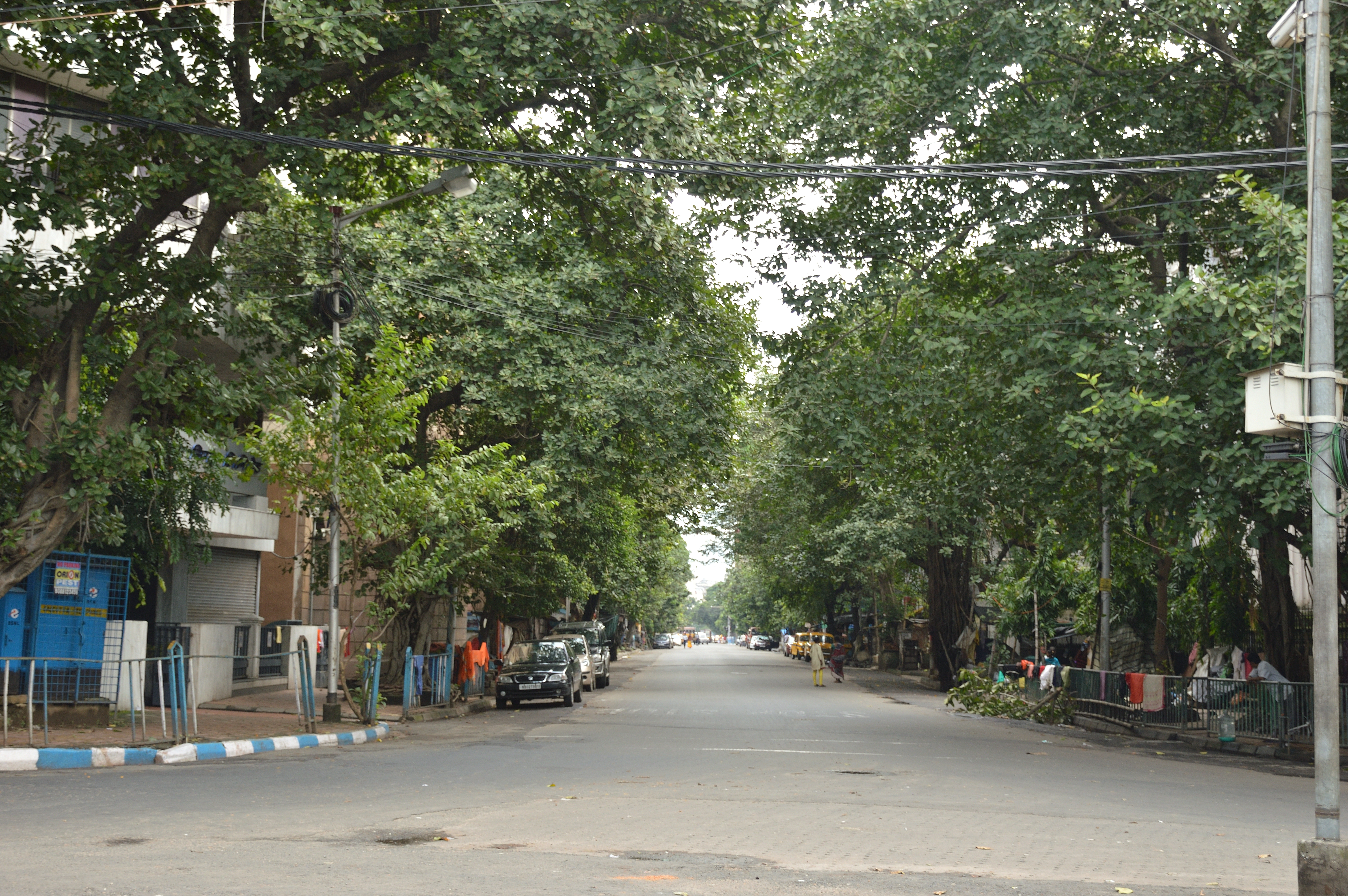 This photograph was taken from the Strand Road, Kolkata.